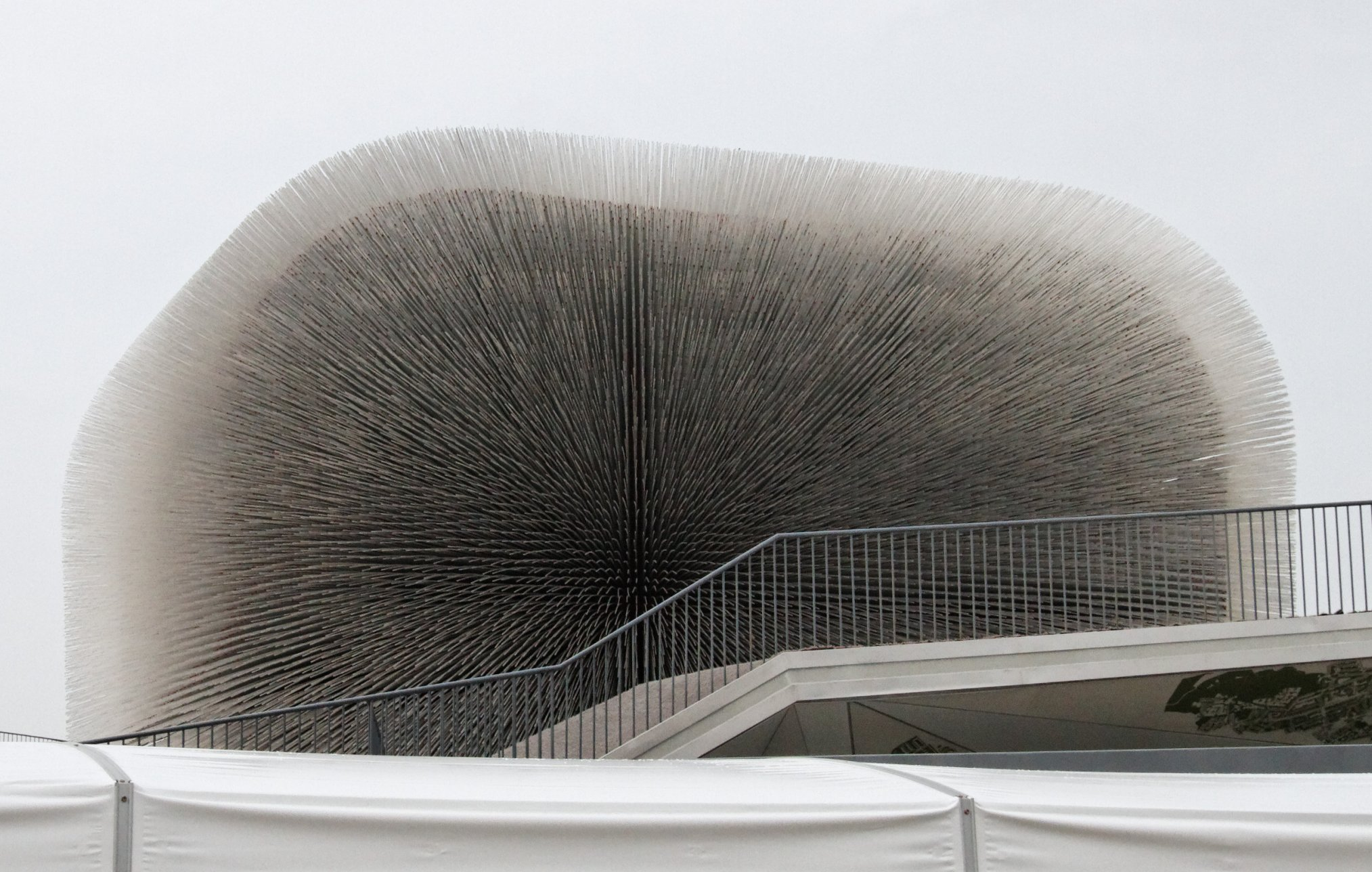 United Kingdom Pavilion of Expo 2010